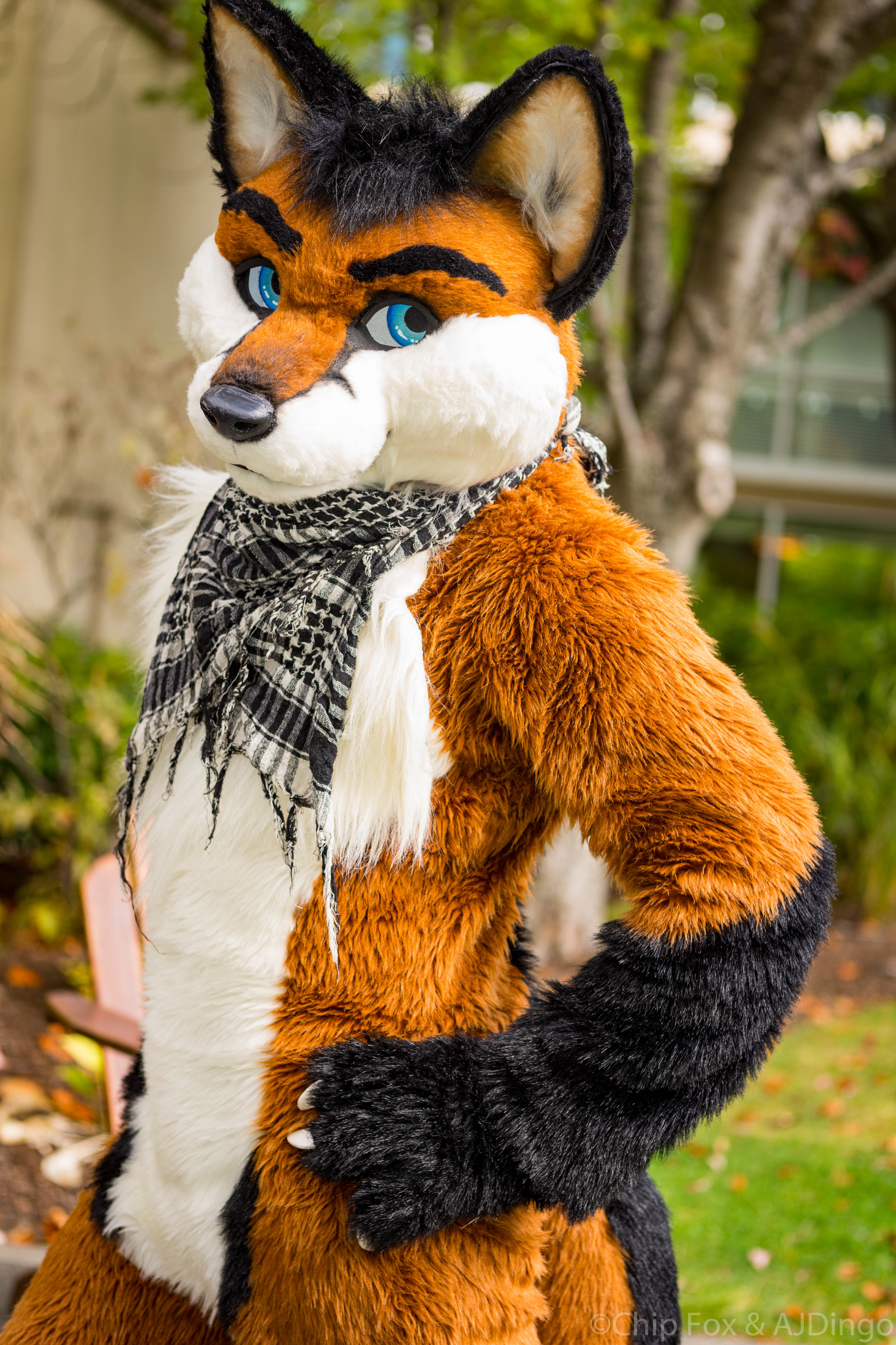 ChipFox at Rainfurrest 2015